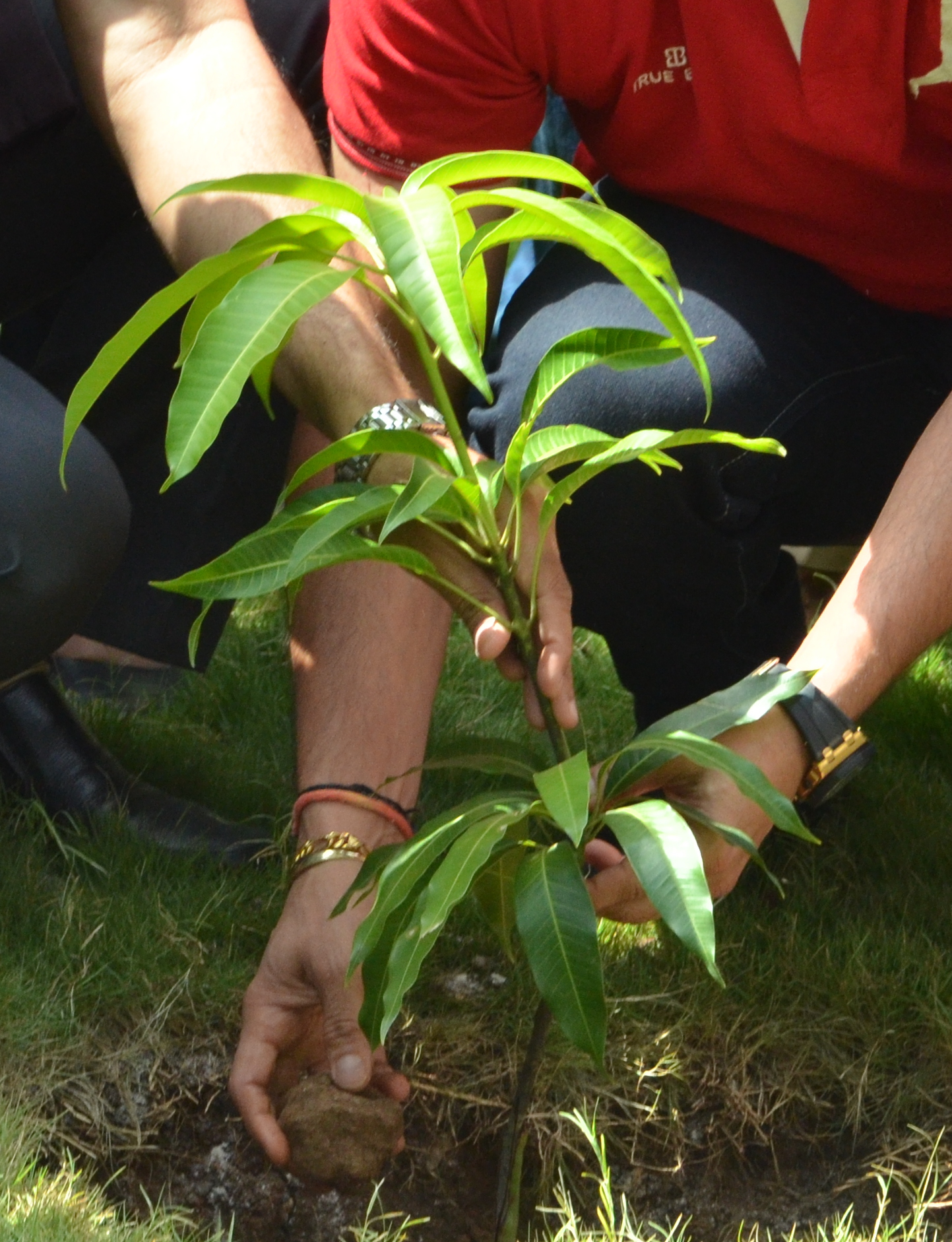 Two people placing a tree seedling in the ground